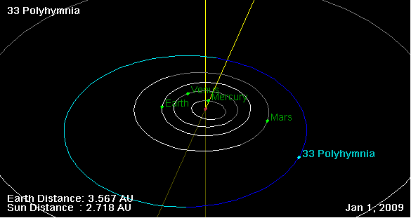 33 Polyhymnia orbit, and his position on 01 Jan 2009 (NASA Orbit Viewer applet)